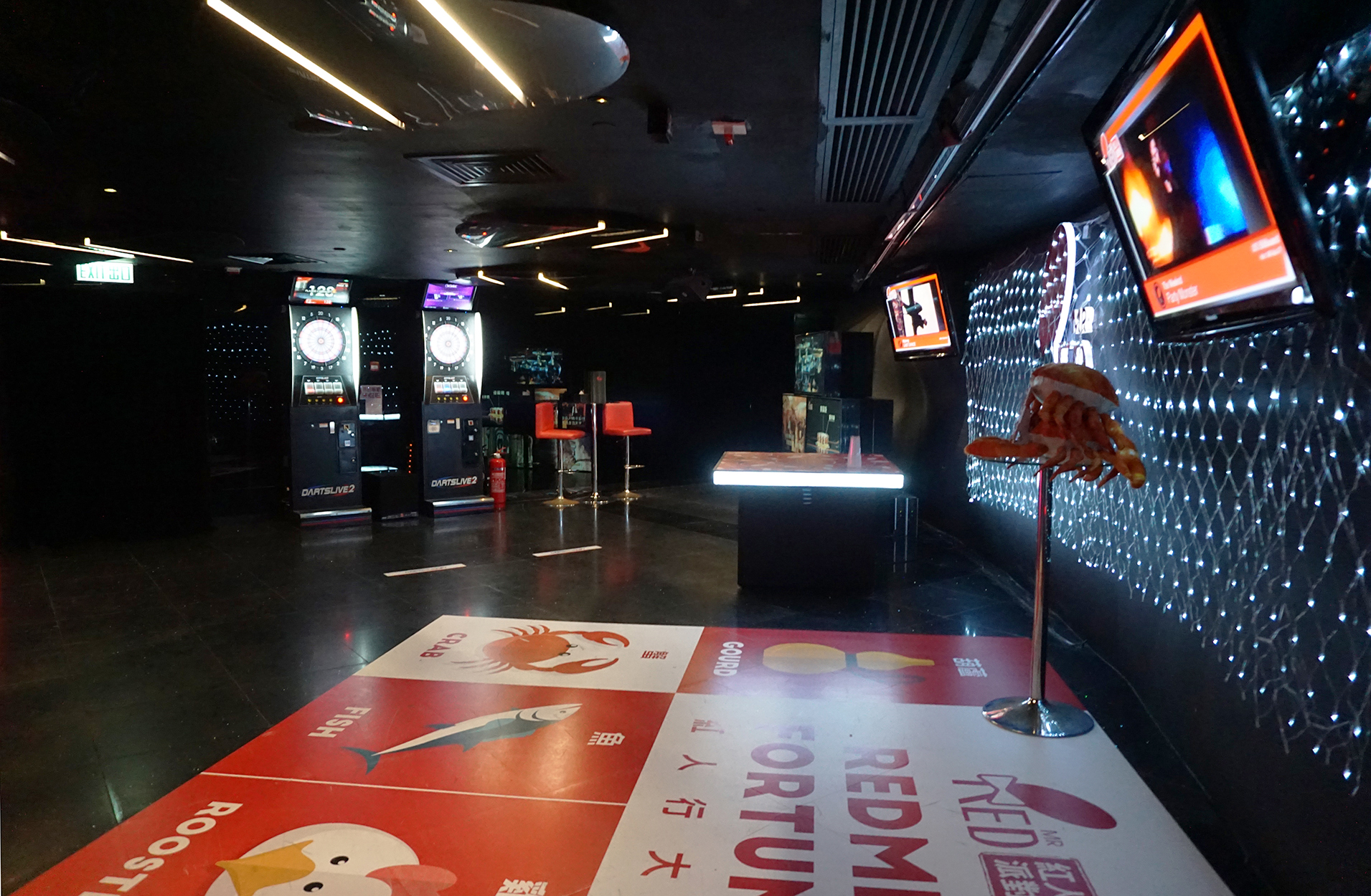 Red MR in Causeway Bay, Hong Kong.